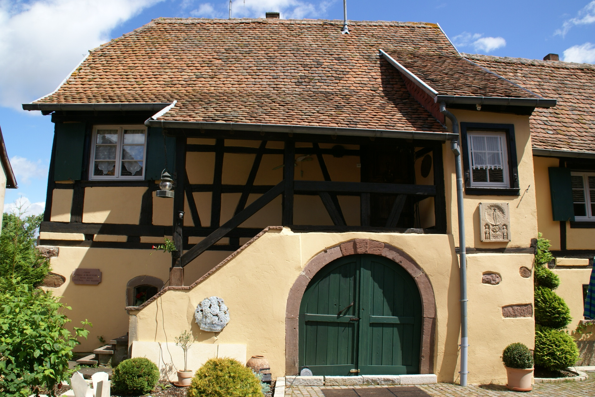 House of Hélène de Beauvoir at Rue de L'Eglise (Church Street) in Goxwiller, Alsace, France